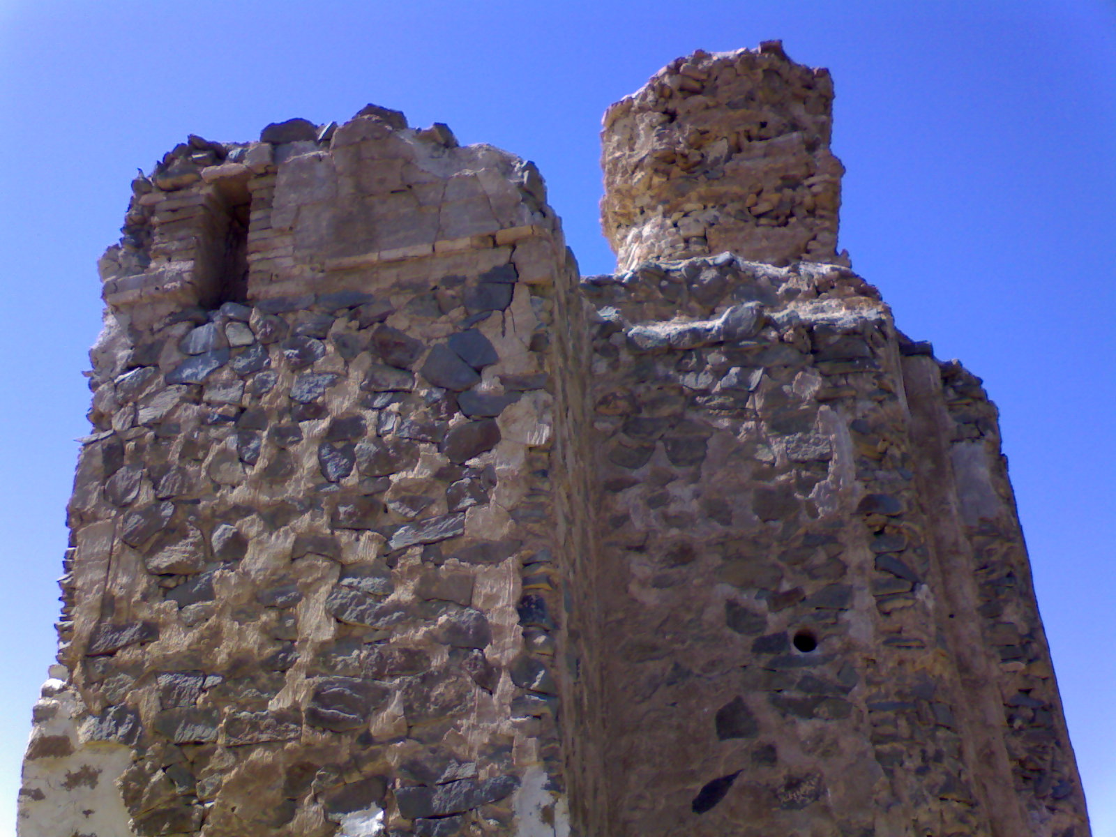 an ancient place in NimVar, Iran